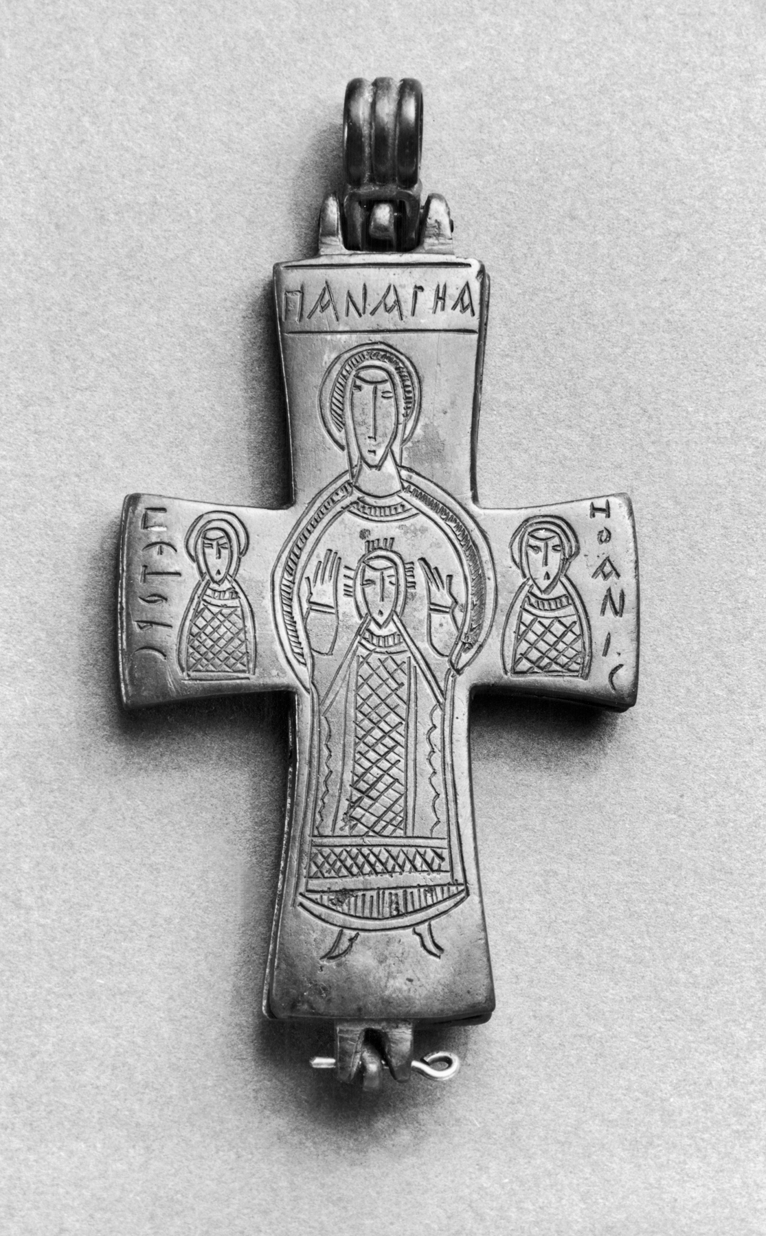 This bronze "enkolpion" (pectoral cross) depicts the standing Virgin and Child flanked by busts of the apostles Peter and John. An accompanying inscription identifies the Virgin as the Panagia ("All-Holy One"). The other side has in its center a medallion with a bust of Saint George. Since the cross can be opened, it may have been used to hold relics.